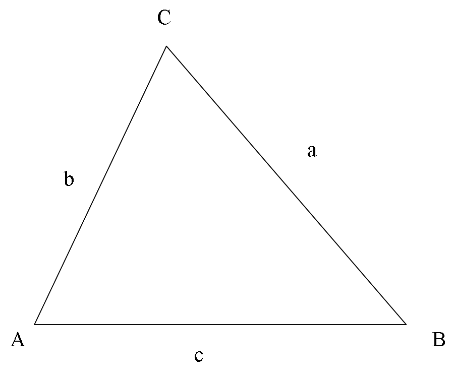 Any triangle A B C with sides a, b and c each side opposite to the angle with the same letter in capital form